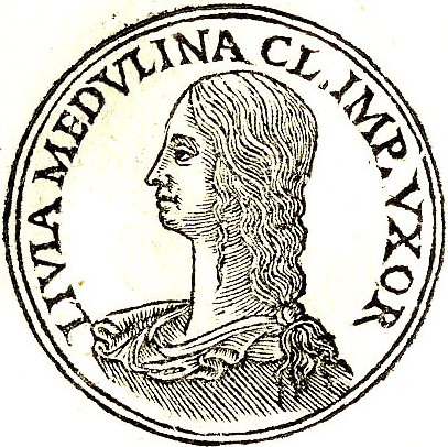 Livia Medullina was the second fiancée of the future emperor Claudius.